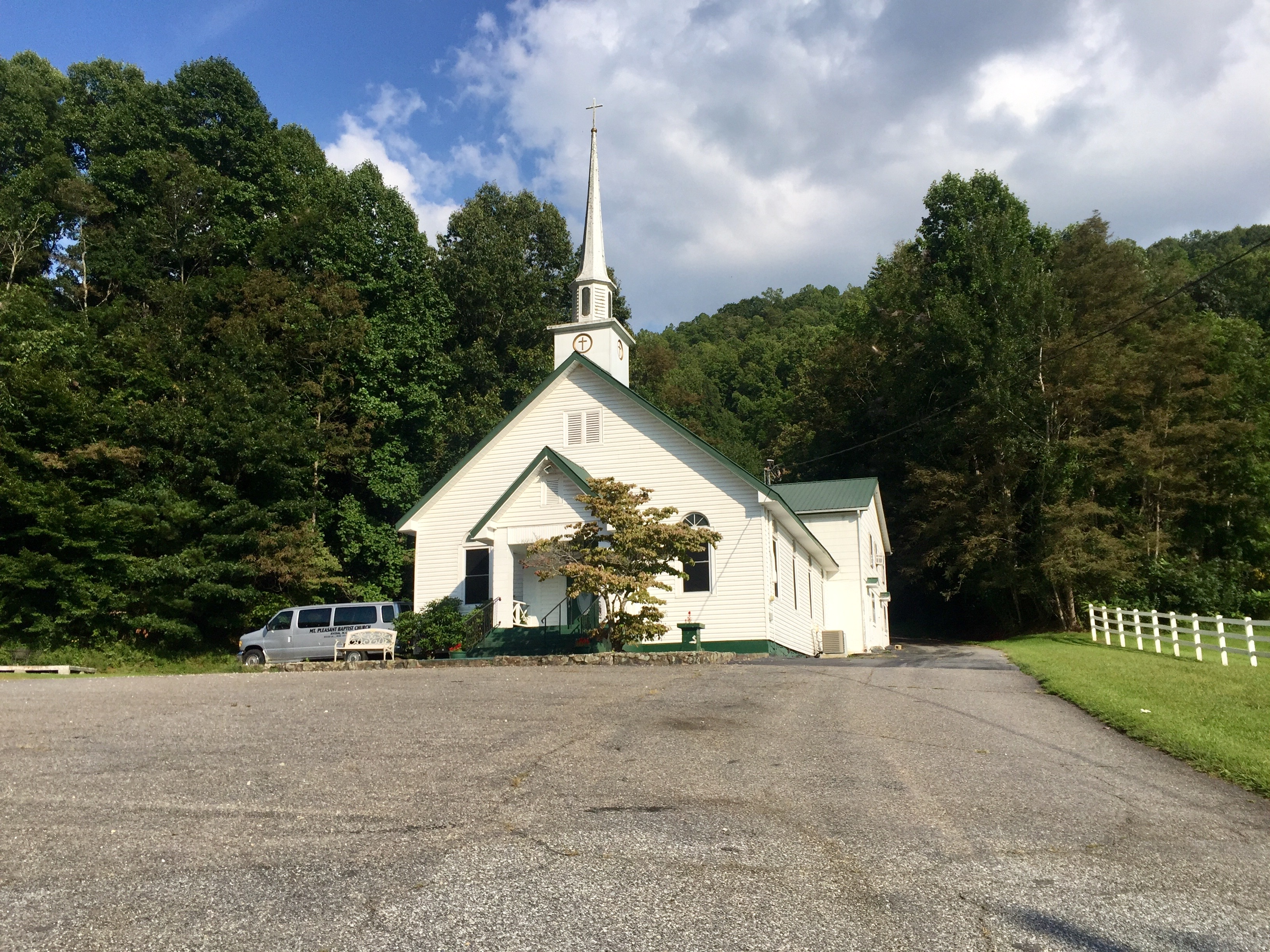 The Mount Pleasant Baptist Church is the most recognizable structure in the community of Willets, located along US Highway 74 between Sylva and Balsam. Constructed around the turn of the 20th Century, the charming wood-frame church was built at a time when Willets was a thriving railroad stop, with a post office, three-room schoolhouse, and several stores and businesses around the railroad depot, as well as a sawmill, founded by the area’s namesake, A.P. Willets, which provided an economic driver to the area. However, the area’s fortunes declined during the Great Depression, as the lumber industry and the local economy took a big blow. The post office was closed in 1934, followed by the local Schoolhouse in 1951, which further accelerated the decline of the area. Today, the Mount Pleasant Church is one of only a few structures remaining from the area’s heyday, with a few houses and two old stores still standing, and is a minor landmark to travelers on the four high-speed lanes of US Highway 74, whom often don’t give it or the community where it is located a second thought.